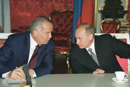 THE GRAND KREMLIN PALACE, MOSCOW. President Putin and Uzbek President Islam Karimov at a joint news conference.